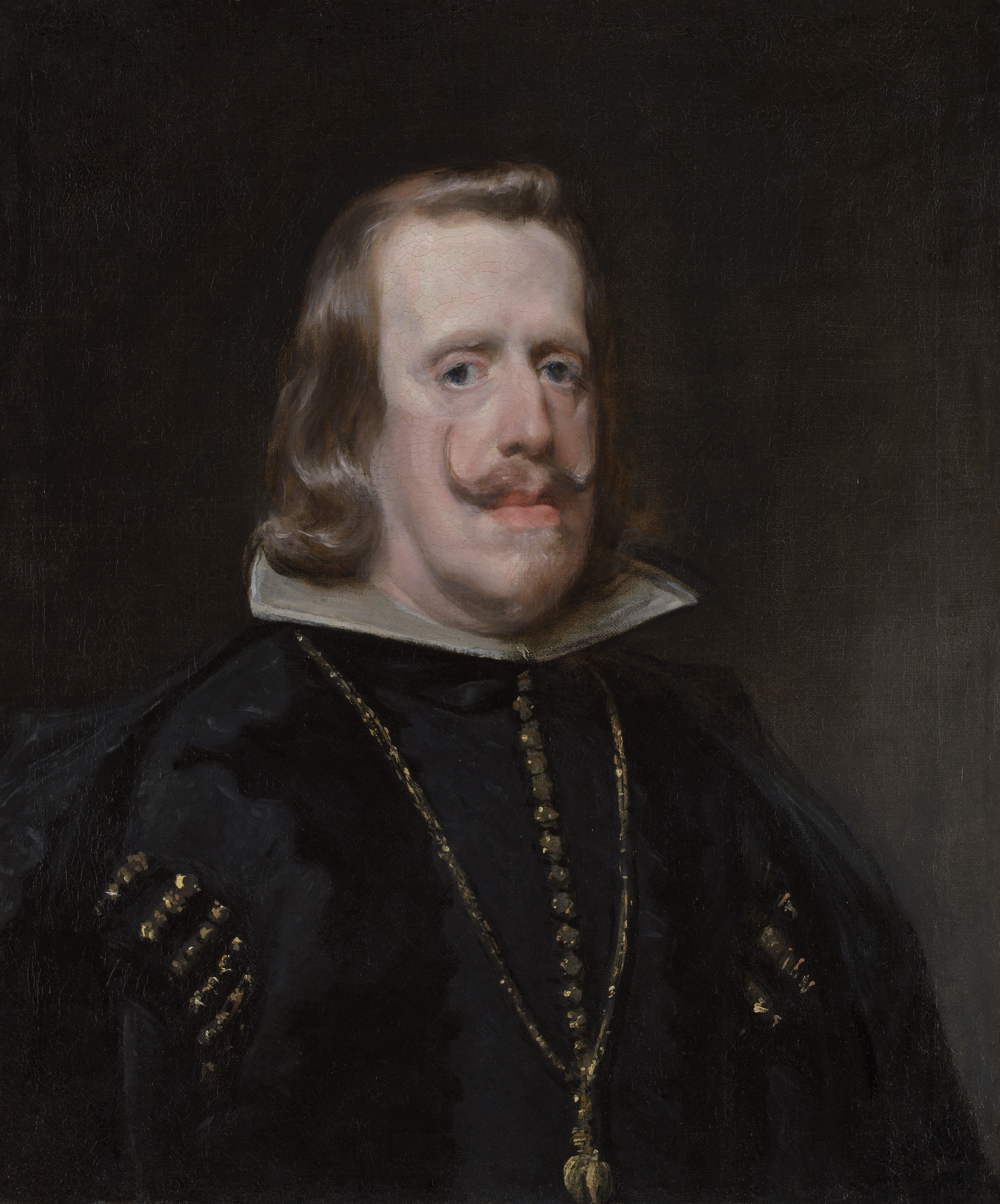 Depicted person: Philip IV of Spain